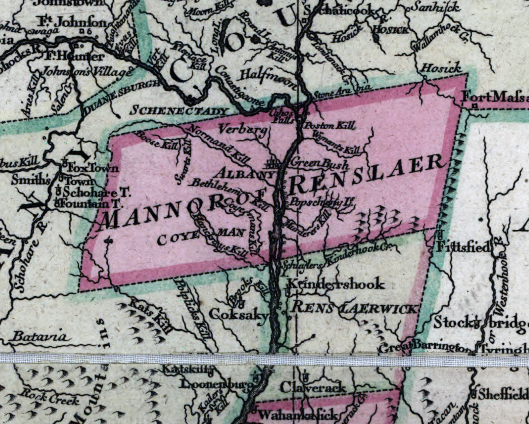 Map of the provinces of New York and New Jersey highlighting the Manor of Rensselaerswyck